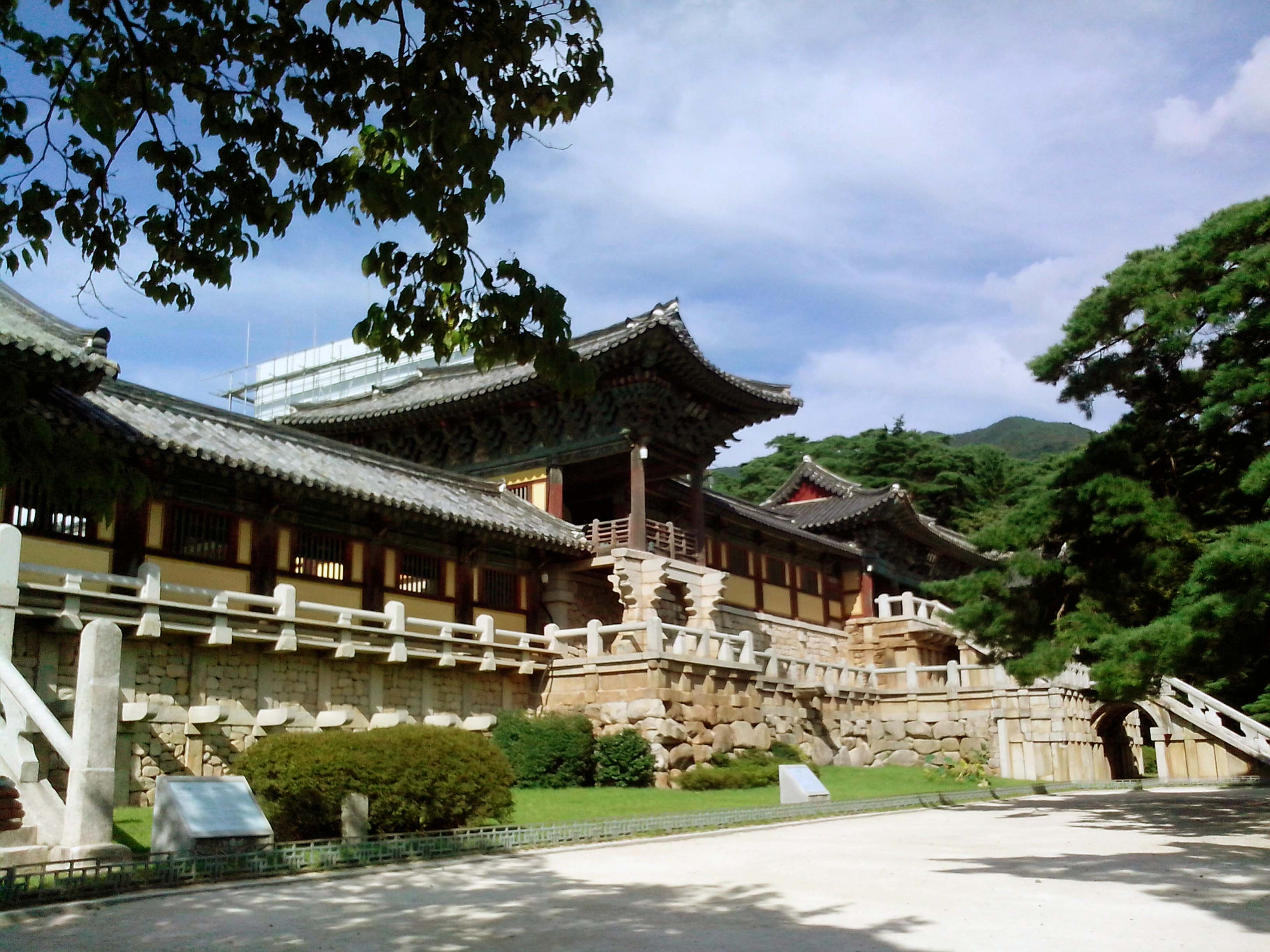 Bulguksa, S Korea